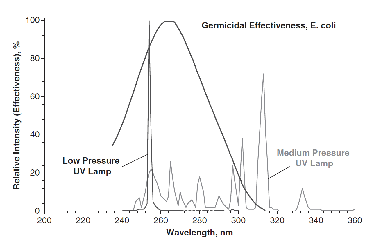 Ultraviolet Germicidal Irradiation Handbook - Fig. 2.1